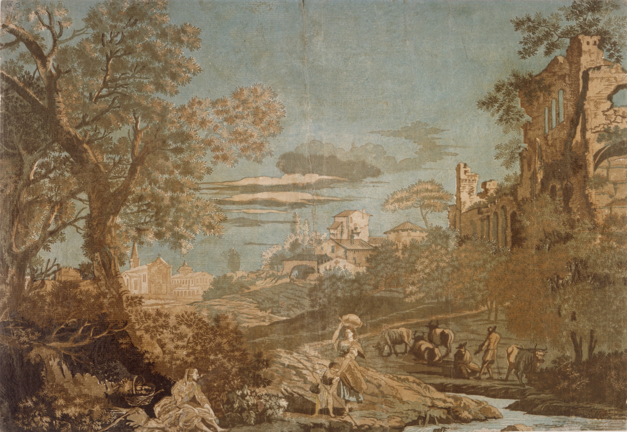 England, 1744 Series: Six landscapes Prints; woodcuts Chiaroscuro woodcut Graphic Arts Council Fund (M.86.229.2) Prints and Drawings